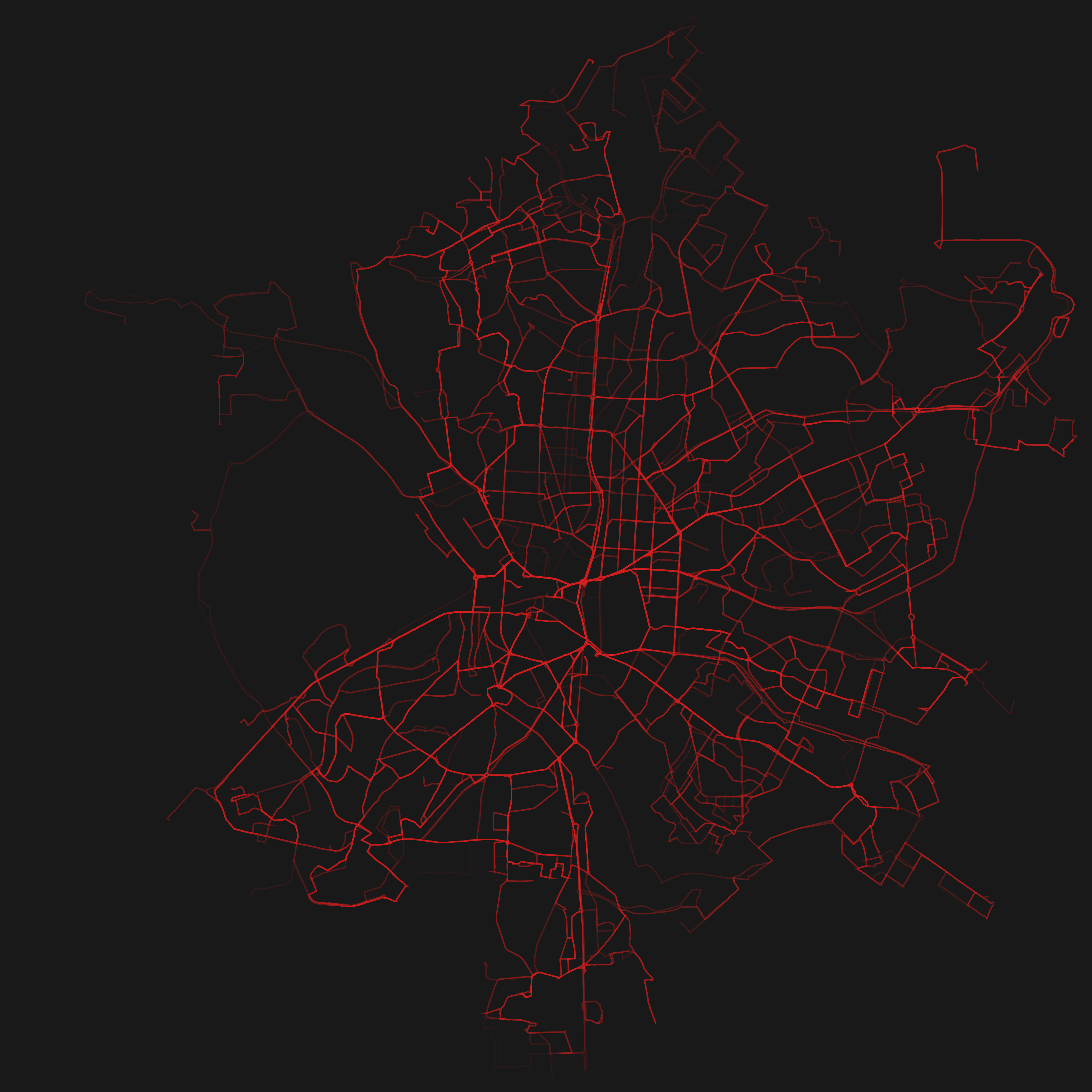 Visualization of GTFS transit routes in Madrid